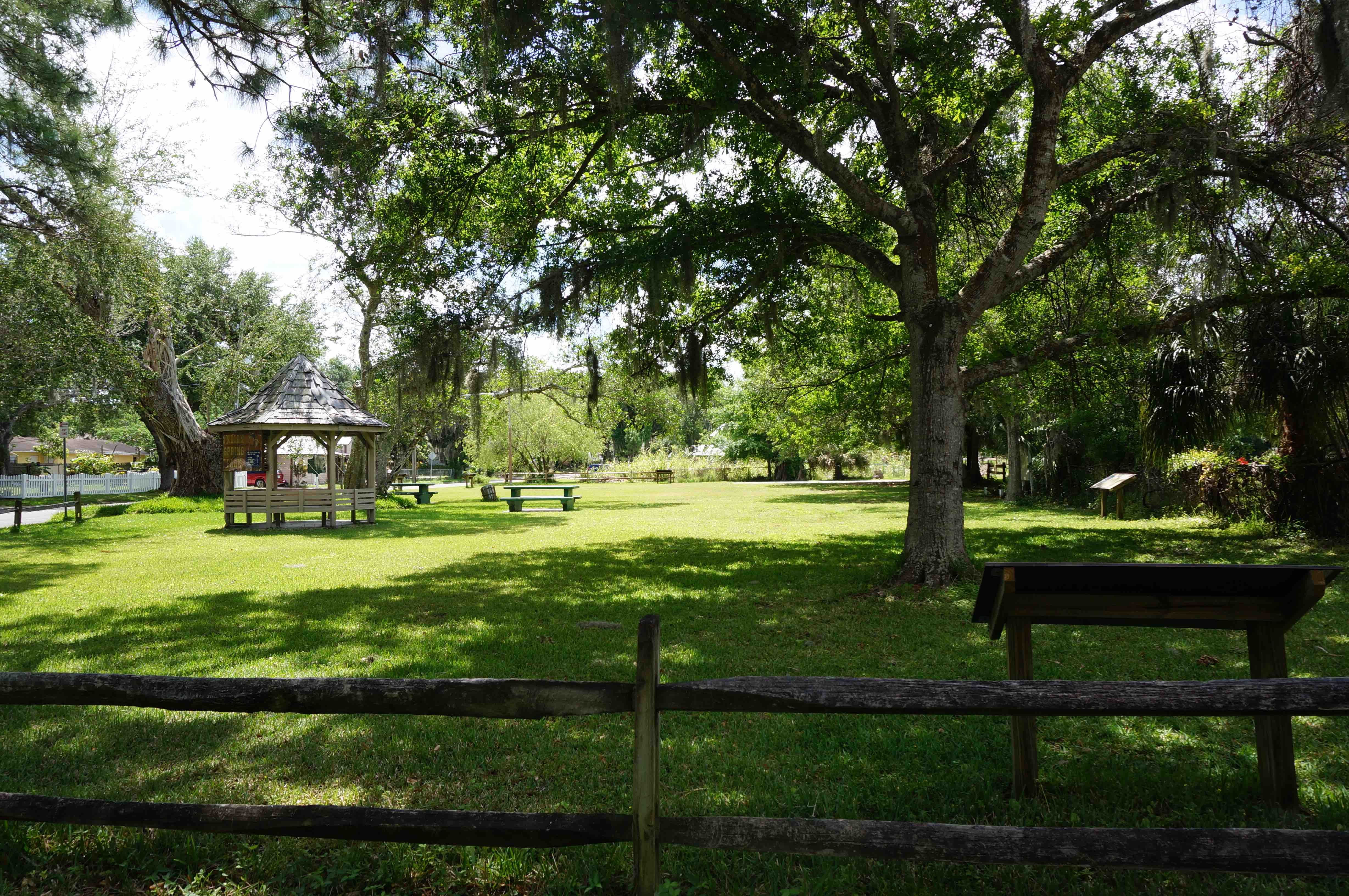 Manatee Mineral Spring Park as viewed from 2nd Avenue East.